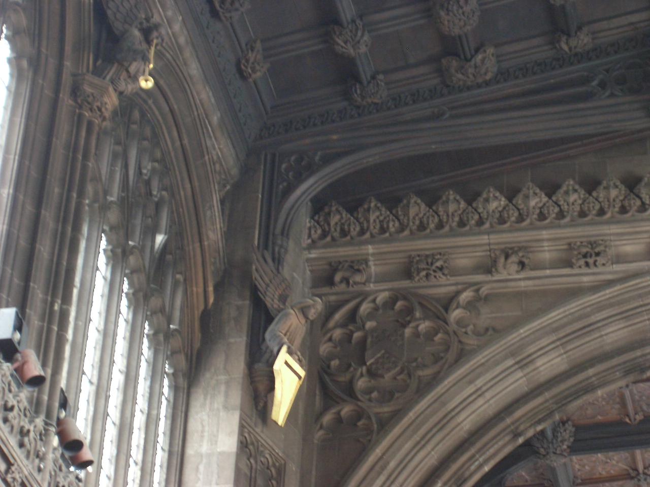 my photo of the interior of Manchester cathedral